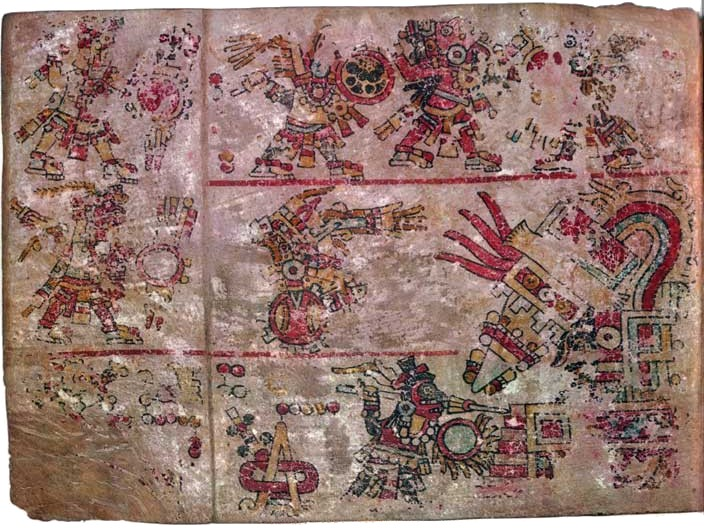 Codex Becker I, first page.